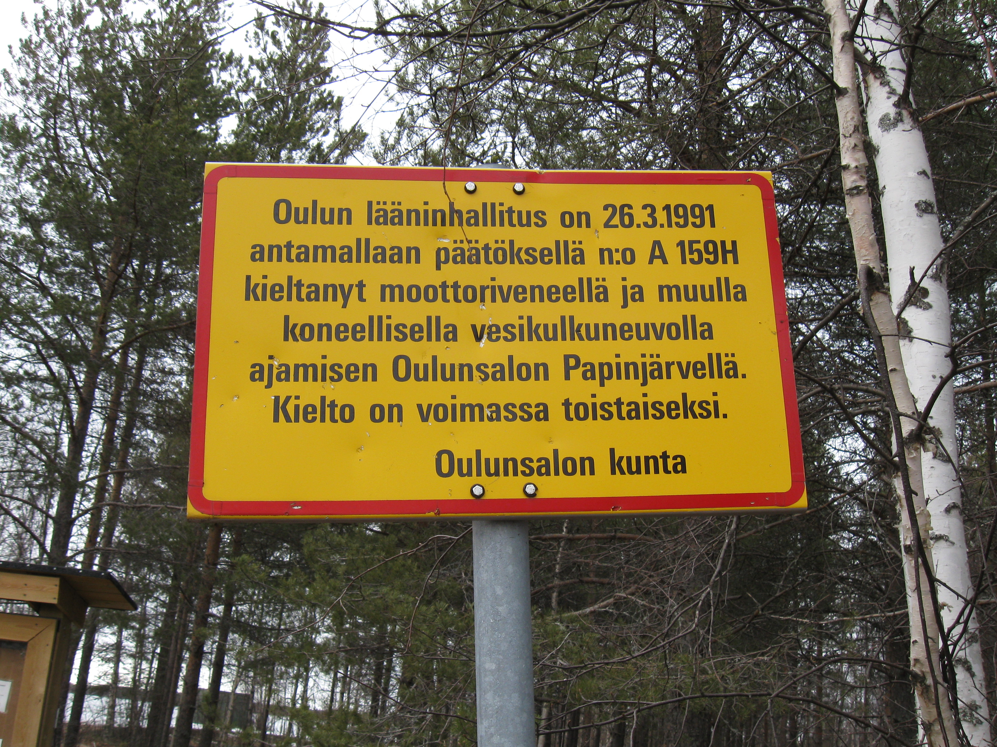 Motor boats are not allowed at the Papinjärvi lake in Oulunsalo, Finland.